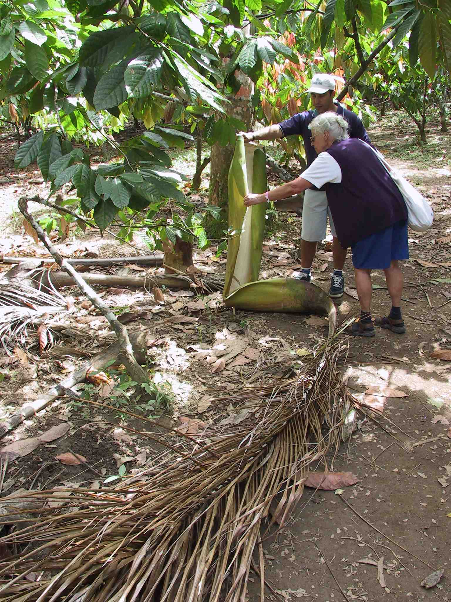 Description: a fallen leaf of Roystonea regia, Cuba (Baracoa) Source: self made Date: 2001-26-02 Author = --Ruestz 13:21, 6 April 2006 (UTC) Roystonea regia, Cuba (Baracoa)